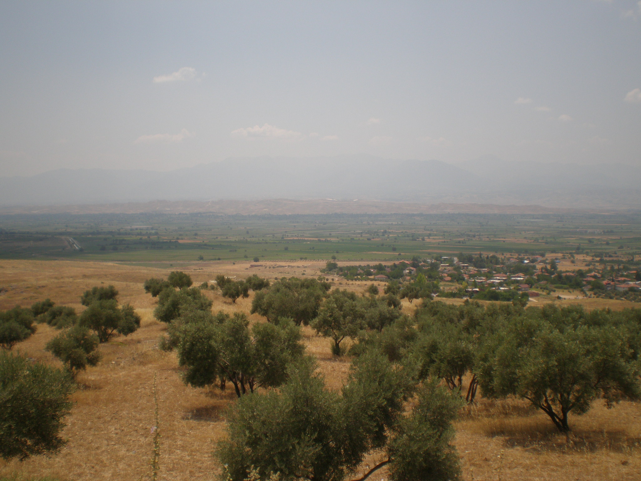 Rural area in Denizli